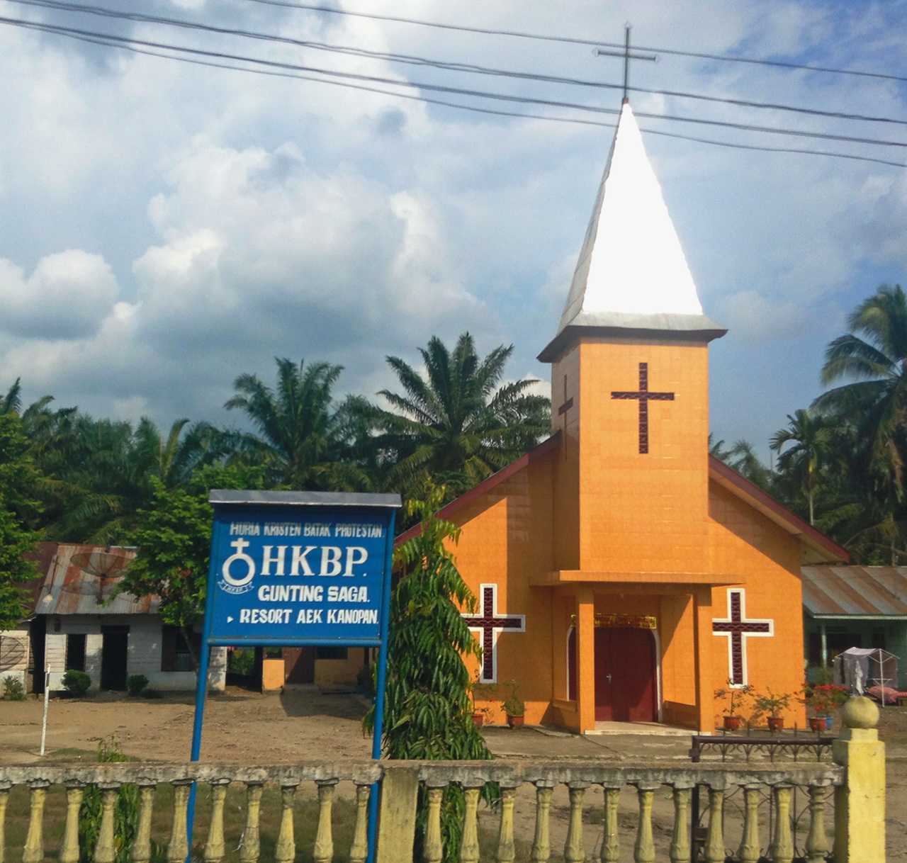 HKBP Gunting Saga, Church in Gunting Saga, South Kualuh, North Labuhanbatu